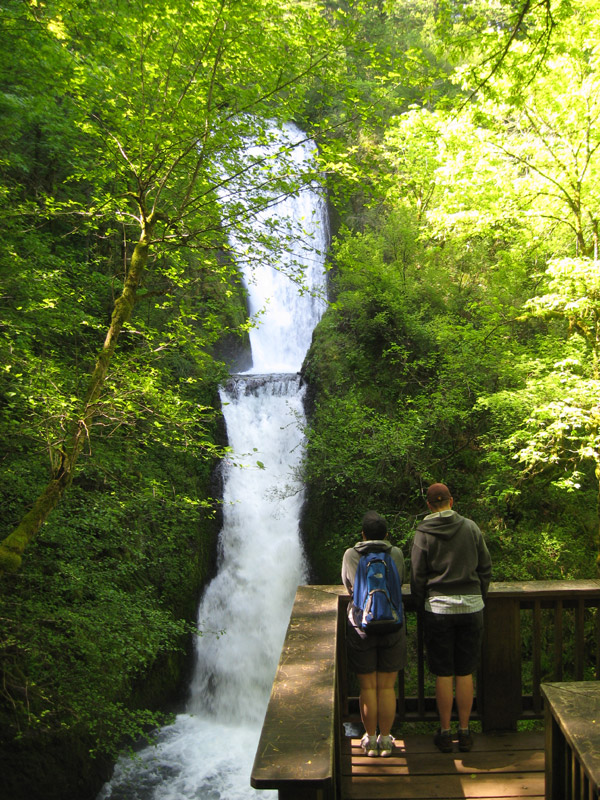 Bridal Veil Falls - Columbia River Gorge Oregon